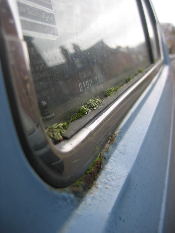 A truly 'green' car - mixing with nature, providing a home. The moss is Bryum argenteum.